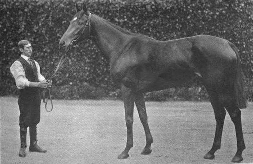 Quintessence, winner of the 1903 1000 Guineas.